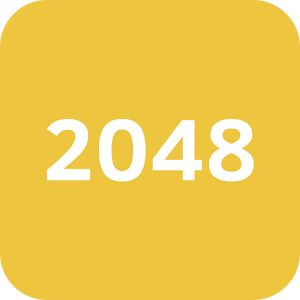 2048 logo.